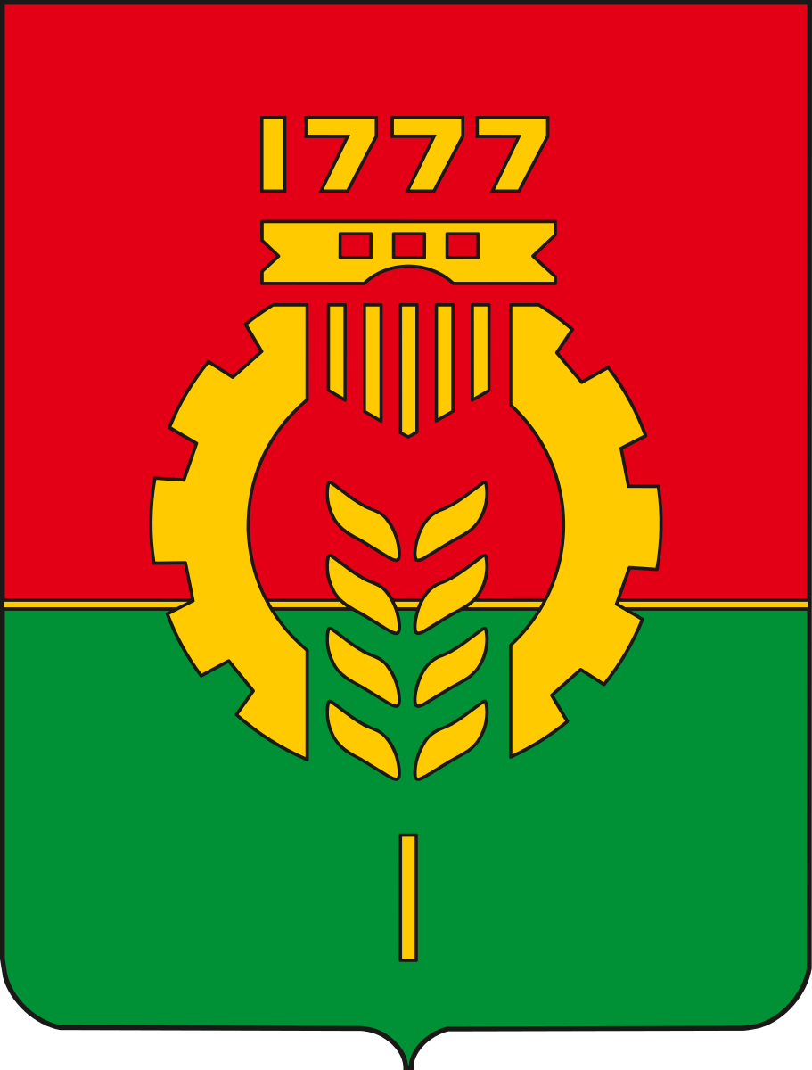 Georgievsk (Stavropol krai), coat of arms (1970)